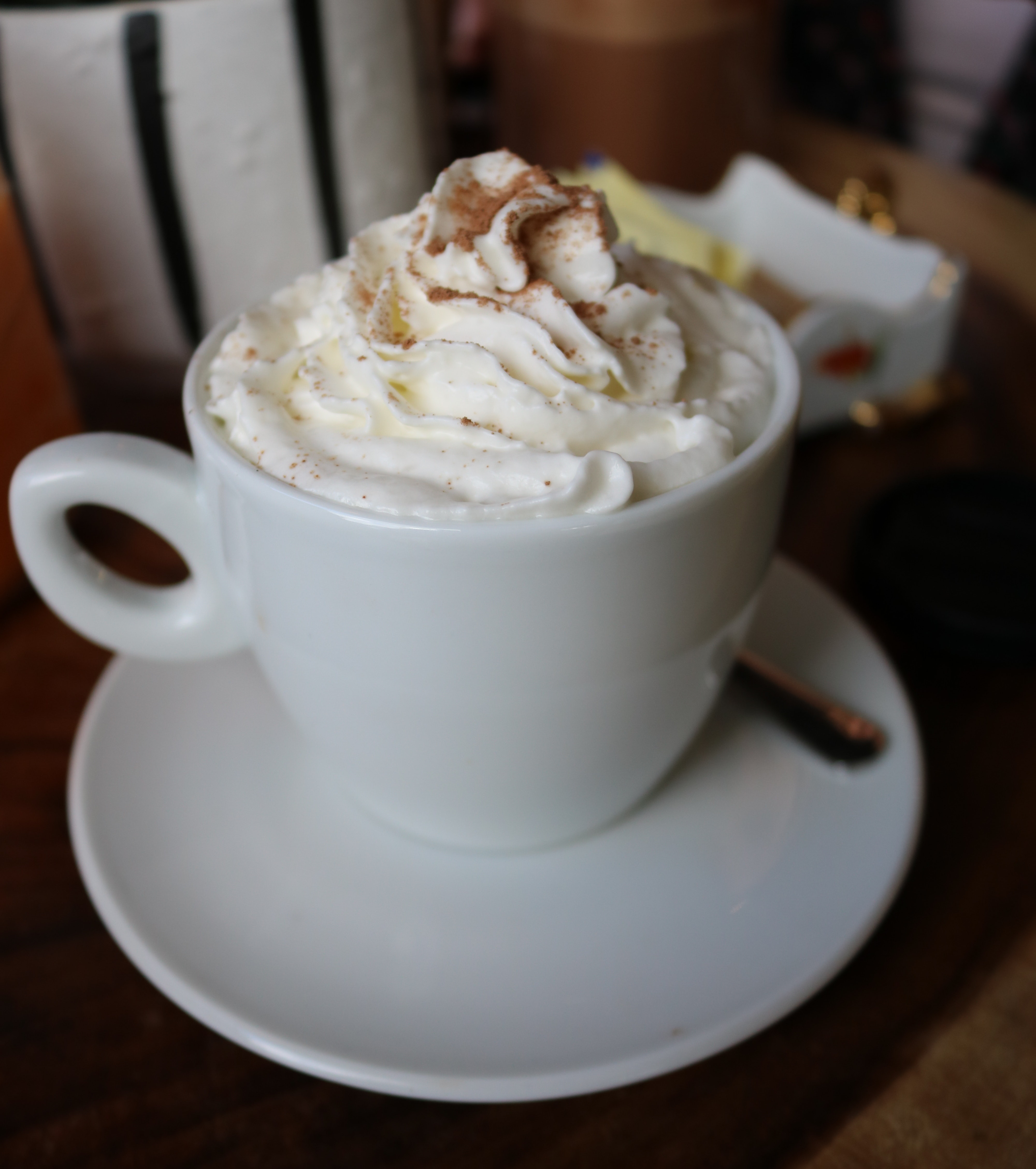 Caffè con panna (espresso with whipped cream)